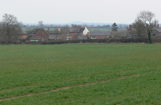 View towards the Leicestershire village of Hoby